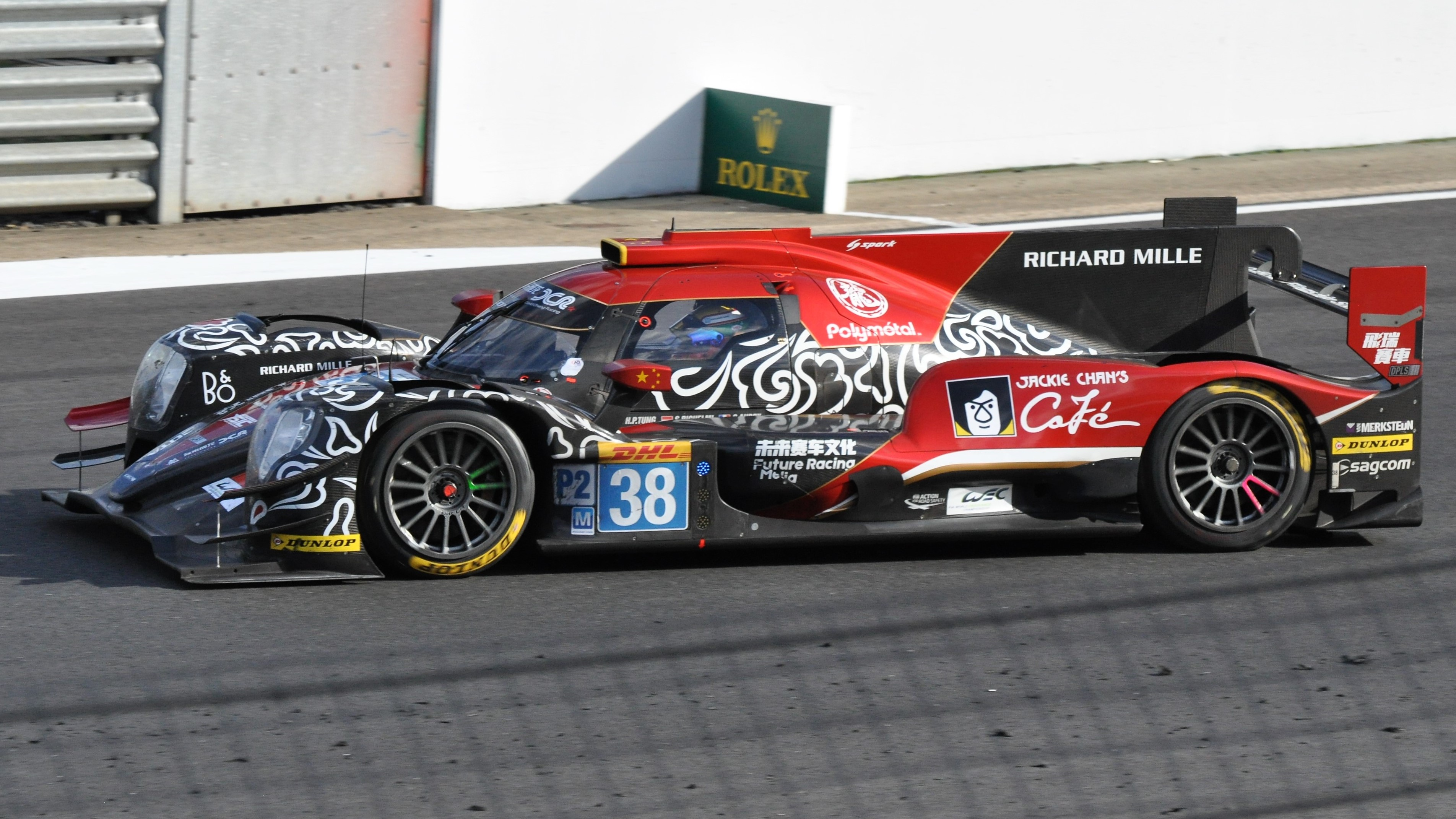 Chinese driver Ho-Pin Tung guides the number 38 Jackie Chan DC Racing-entered Oreca 07 car into Abbey corner during the 2018 6 Hours of Silverstone race. Tung and his co-drivers, Stéphane Richelmi and Gabriel Aubry, won the LMP2 class, and finished fourth overall.